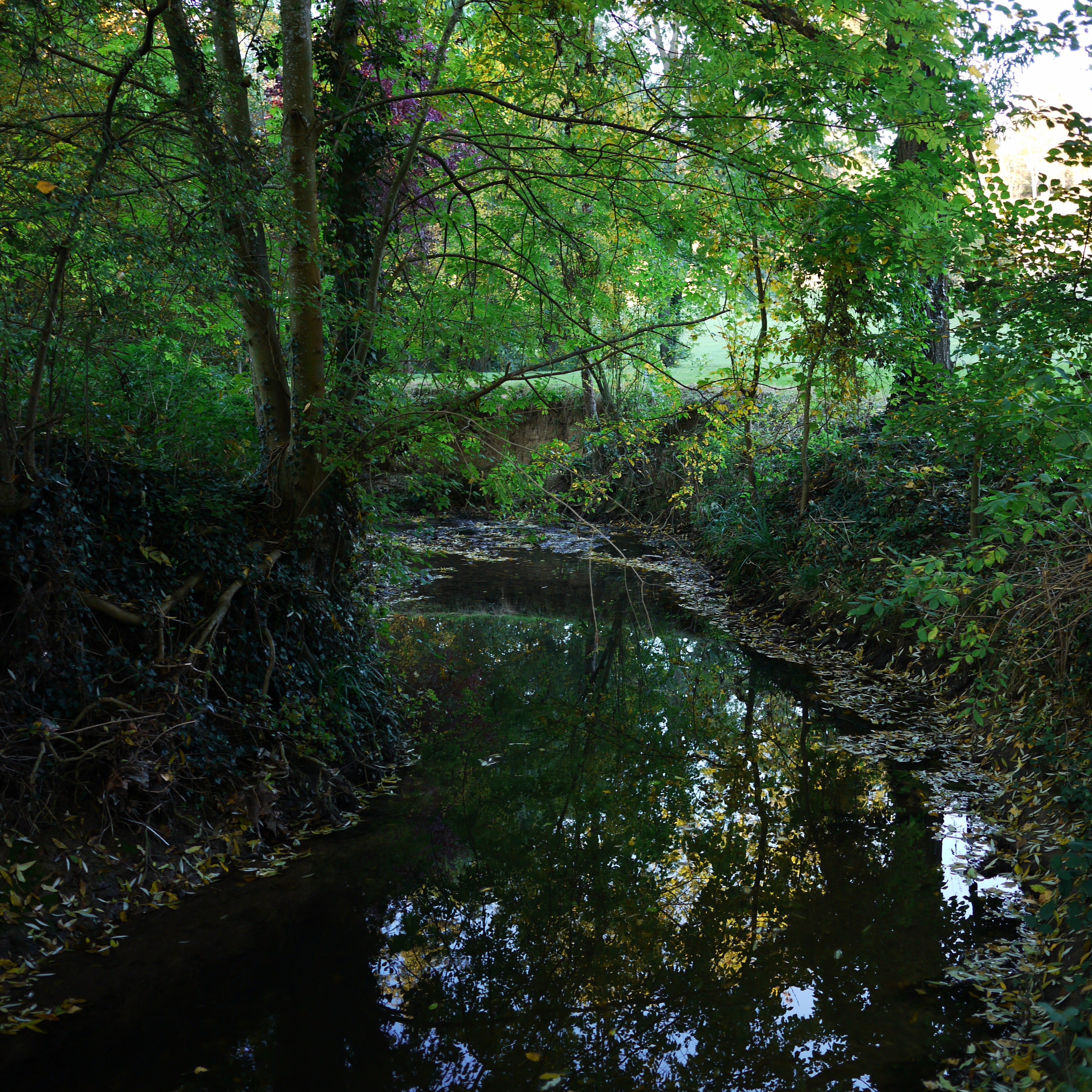 Parc du Morbras, Sucy-en-Brie, Val-de-Marne, France. The Morbras River.